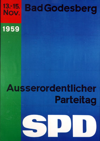 Placard of SPD party convention in the town of Bad Godesberg next to Bonn (now part of Bonn) in November 1959 // Plakat des außerordentlichen Parteitags der SPD in Bad Godesberg, November 1959.